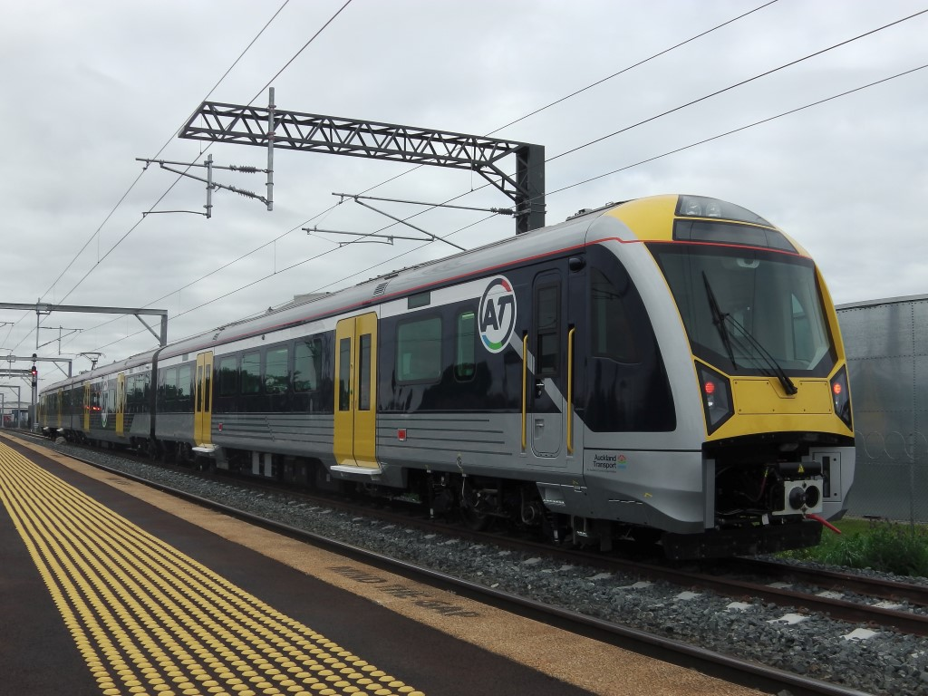 Electric multiple unit AM 103 at Puhinui station on its first test run, with AMA 103 leading